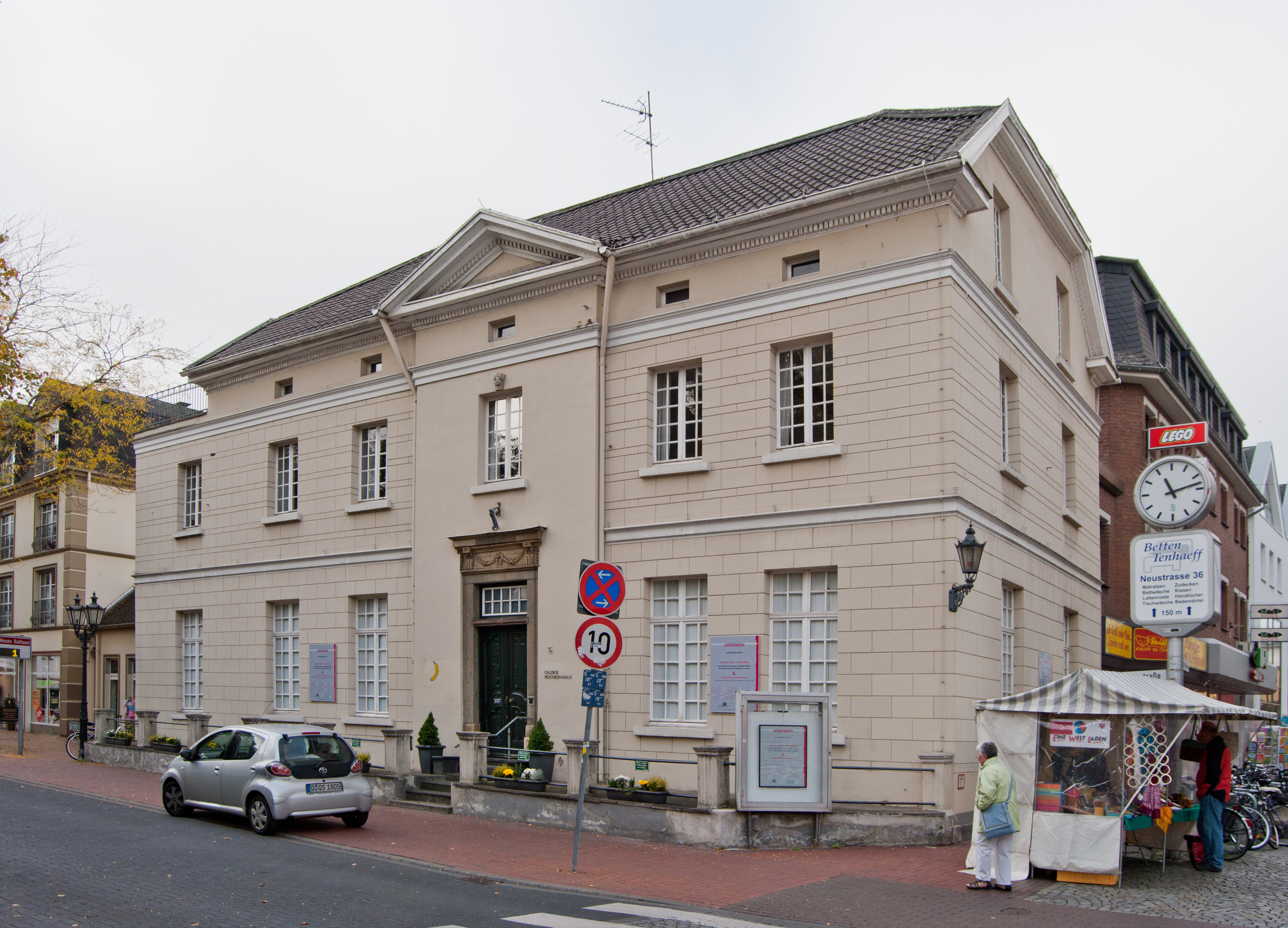 Moers (North Rhine-Westphalia, Germany) – oldest preserverd townhouse “Peschkenhaus” This image shows a heritage building in Germany, located in the North Rhine-Westphalian city Moers (no. 10). This photograph was taken with a Nikon D3000